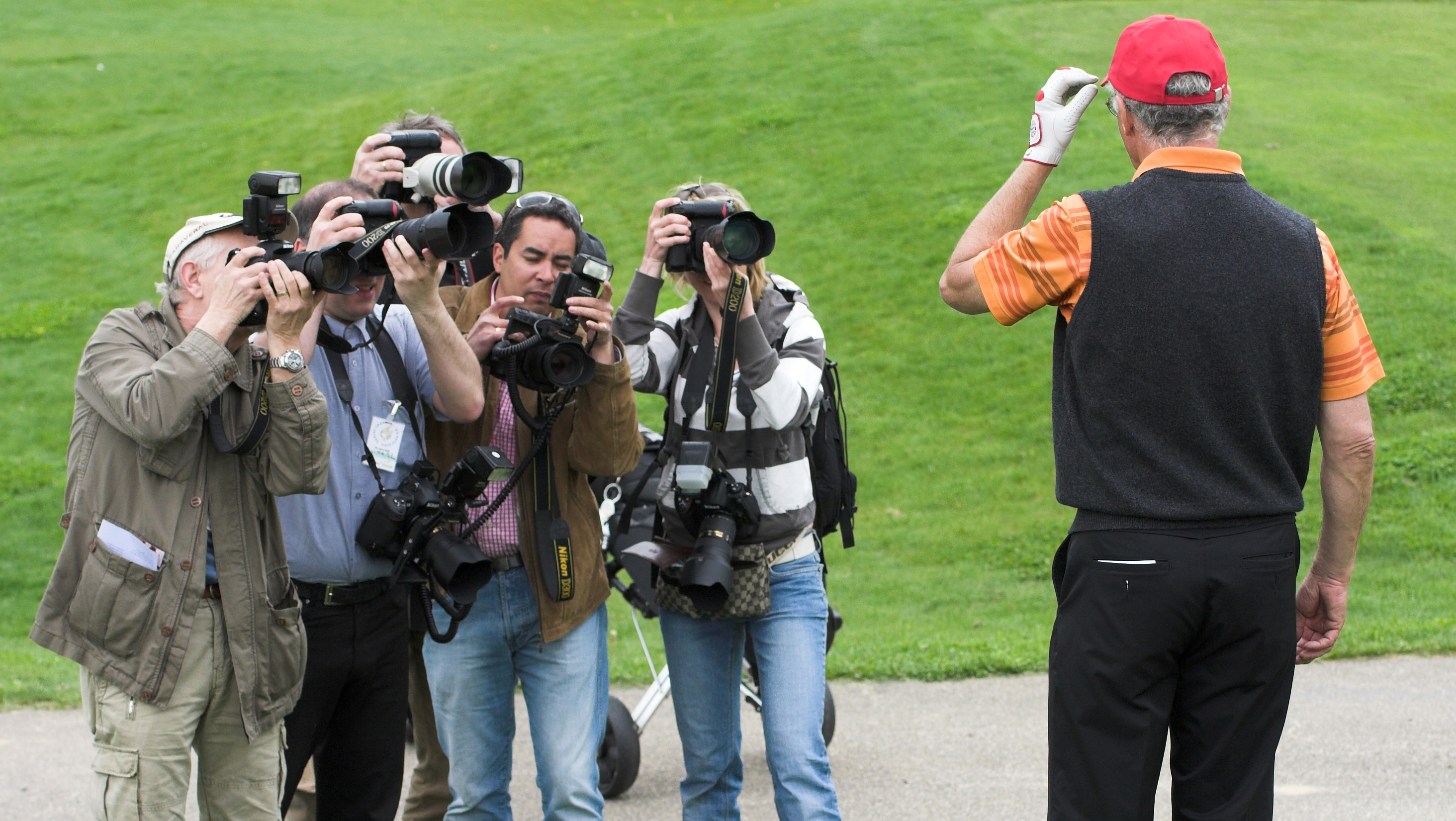 German retired soccer-pro Franz Beckenbauer in front of some Paparazzi.